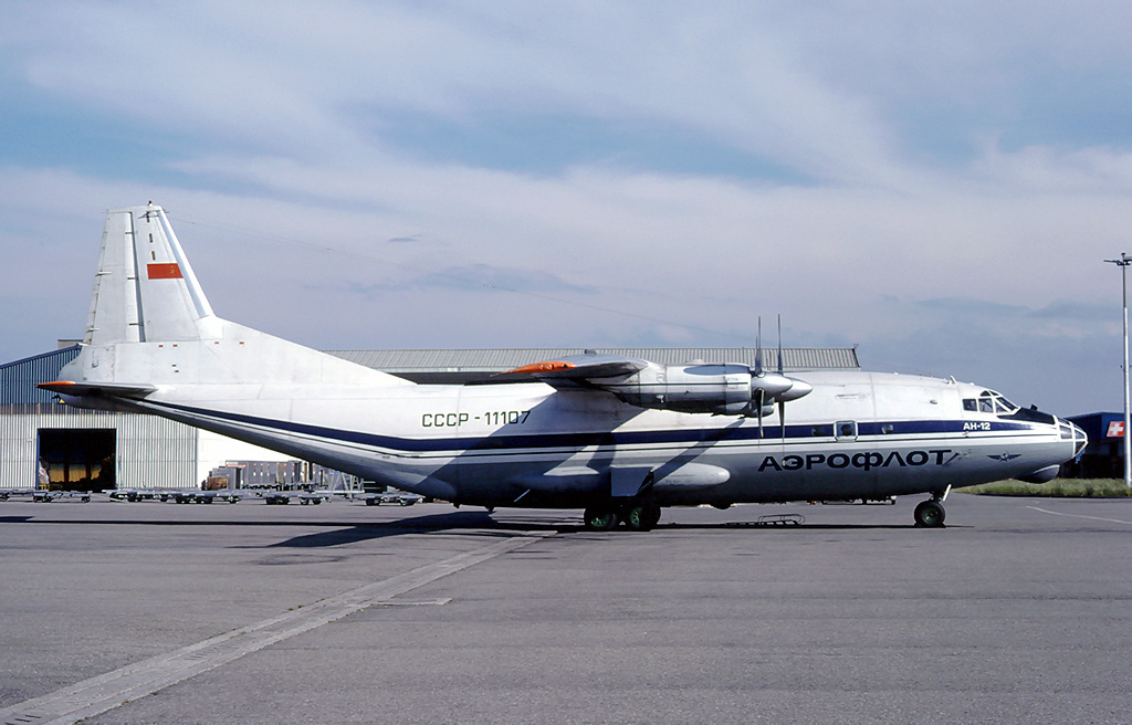 An Aeroflot Antonov An-12 at Euroairport (LFSB)